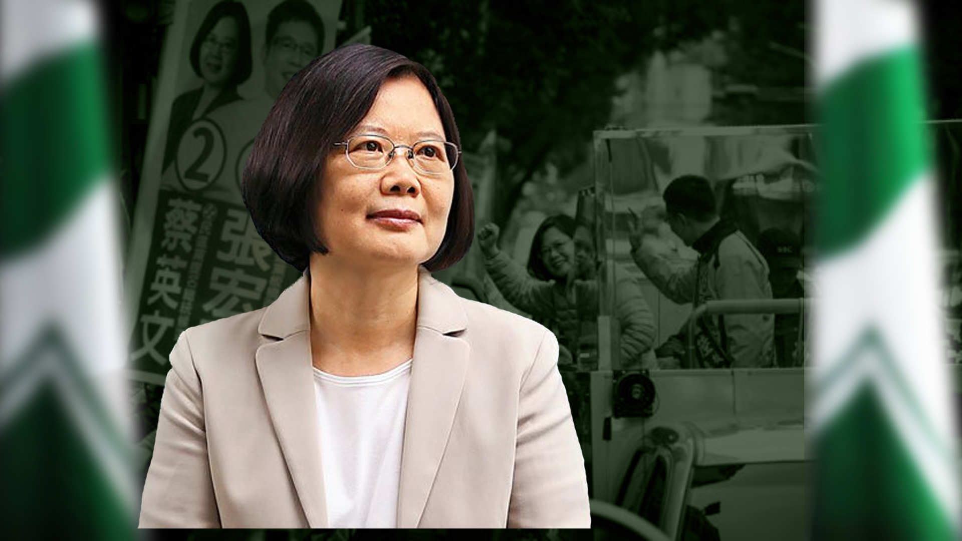 Tsai Ing-wen, president-elect of Taiwan.